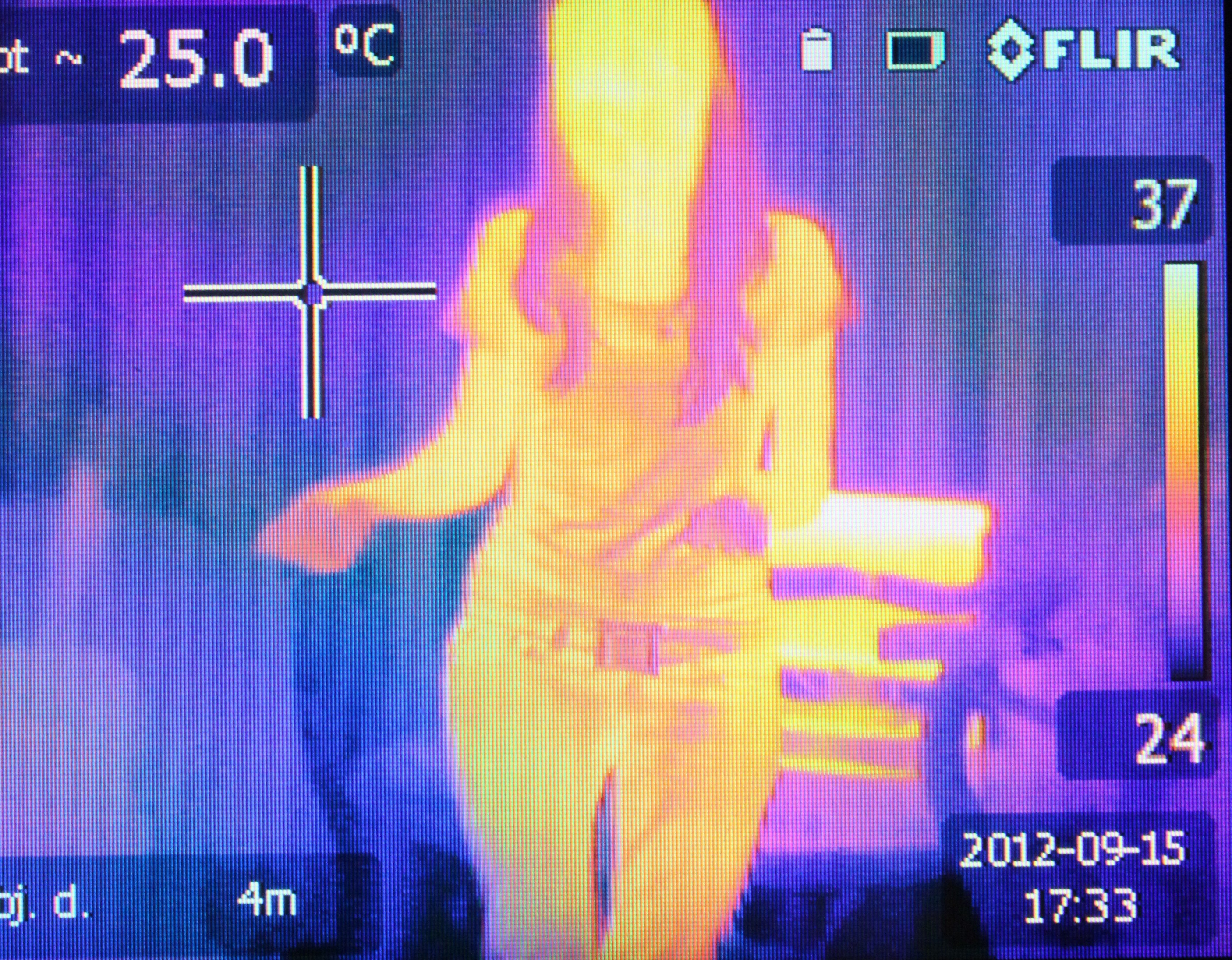 Thermographic image with Clothing